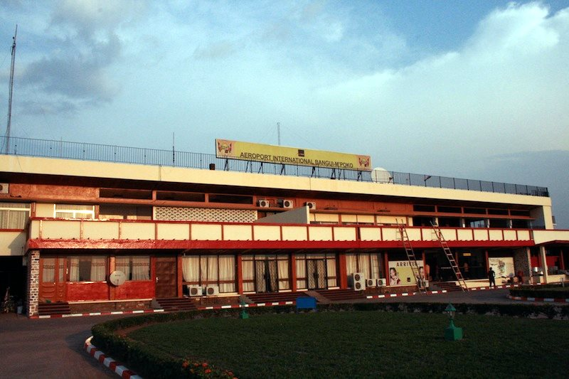 CAR International Airport